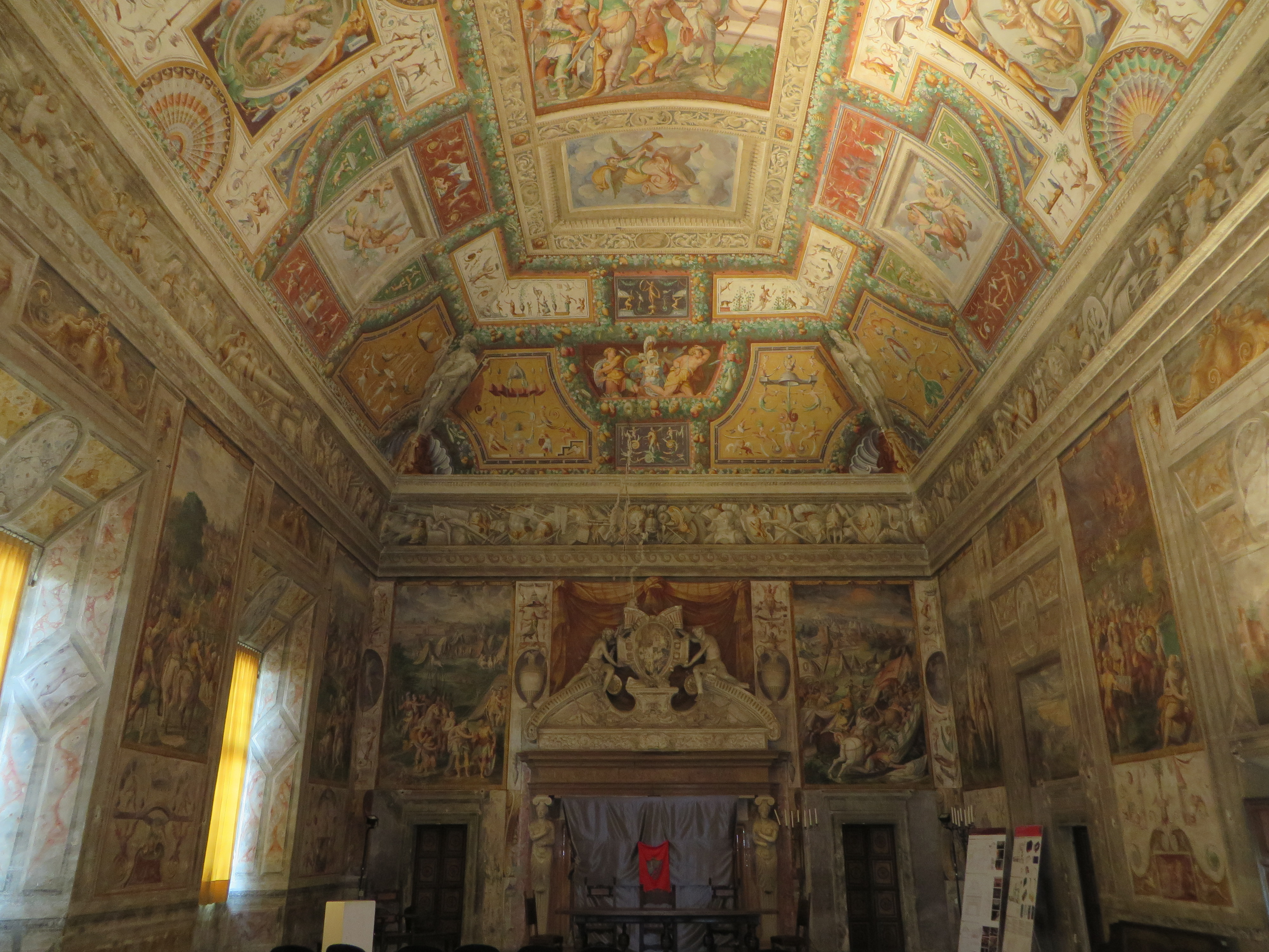 Caste